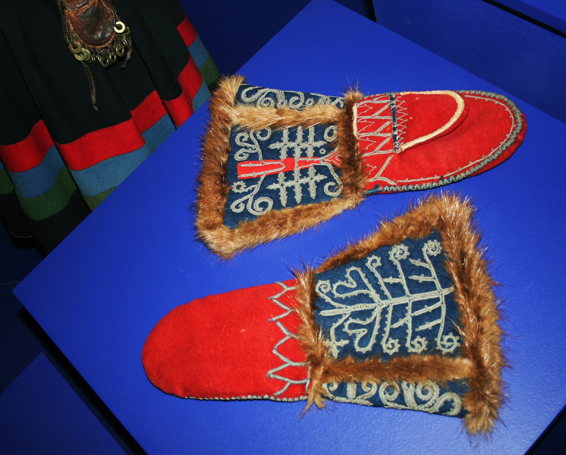 Norwegian Sami Laplander fur mittens with goldwork i.e. metal tread embroidery. Exhibited at a museum in Oslo, Norway. Attribute